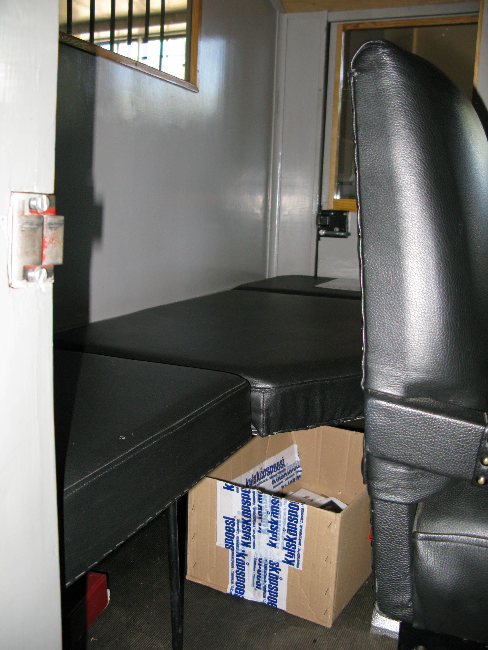 1933 Tidaholm T6L sleeper cab bed.Location: Tidaholms Museum